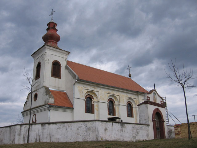 Orthodox Church in Banoštor, Vojvodina, Serbia